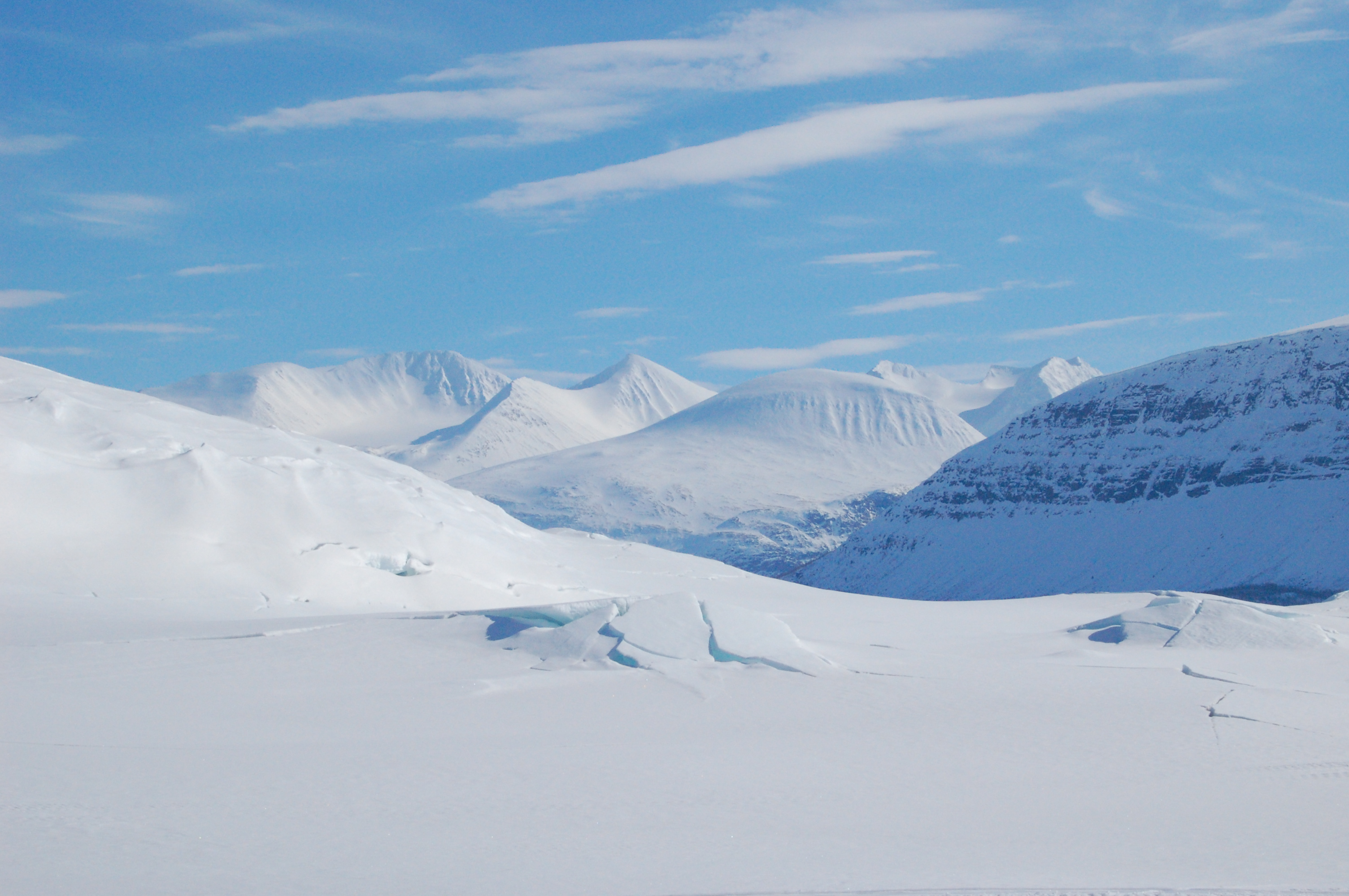 A view over the Akka massif, taken late spring 2008.